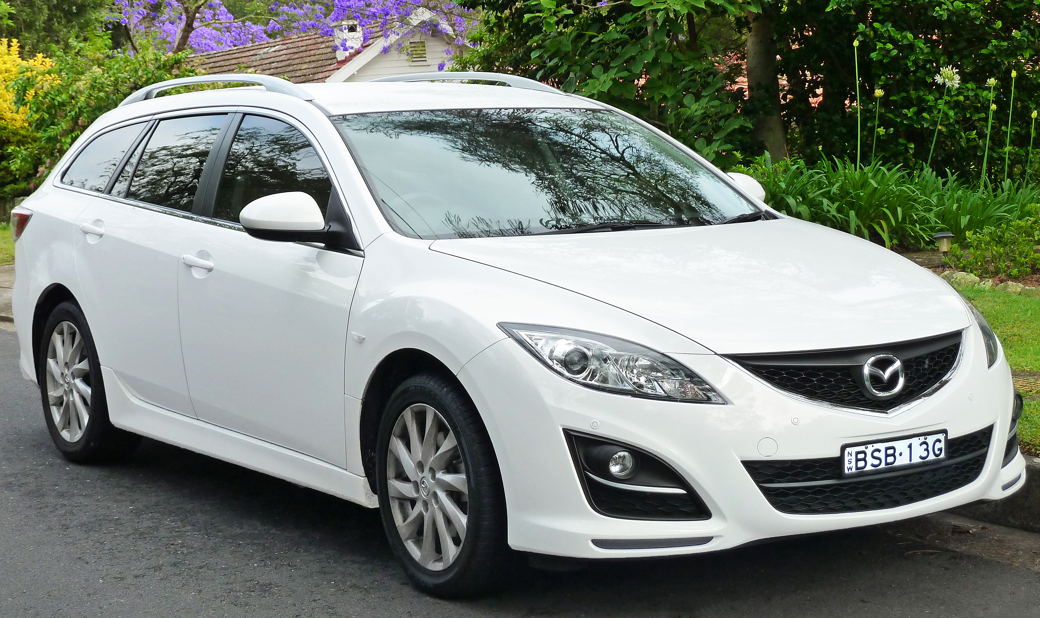 2010 Mazda6 (GH Series 2 MY10) Touring station wagon. Photographed in Gordon, New South Wales, Australia.